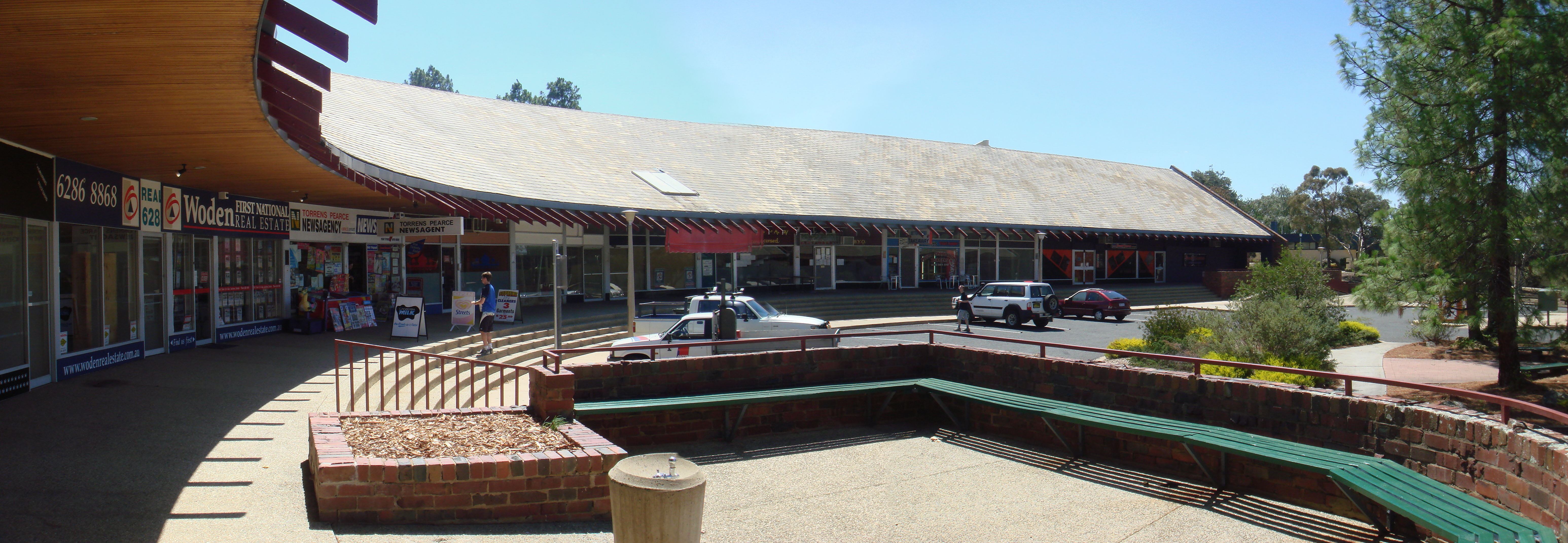 This photograph was taken by Korske on 20 January 2007.